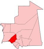 Map of Mauritania showing Brakna region.